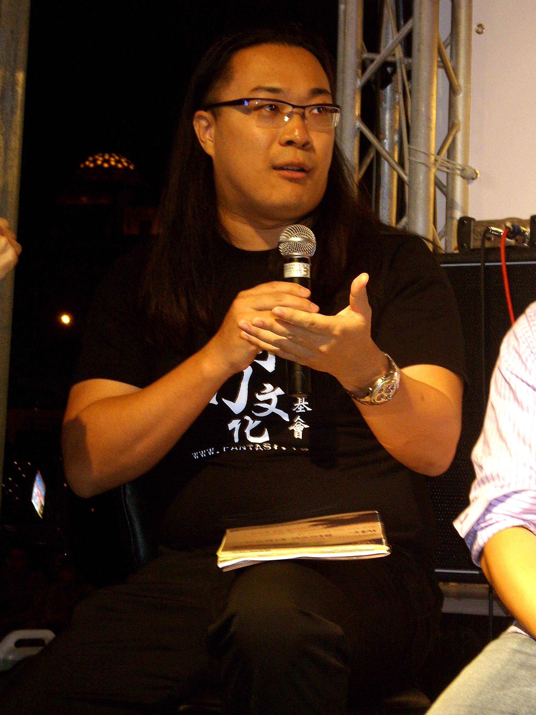 Lucifer Chu at Talking Show of YouTube Taiwan Launch Activity.